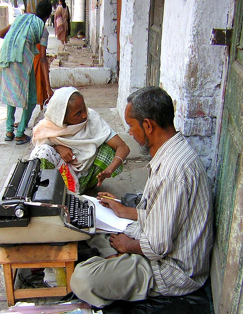 About 50% of India's women are illiterate. What that means is that for everyday tasks like filling forms, operating bank accounts, and even communicating with loved ones through letters they need to take help from someone. The traditional letter-writer hence continues to be a fixture on the Indian landscape. Almost all letter-writers are men, and they generally sit with their type-writers and letter pads in front of post-offices and type forms or write the personal correspondence for people who are illiterate. Here a woman is explaining what she wants written in her letter which the letter-writer writes out by hand. This photo is a part of the 50 Million Missing Campaign.